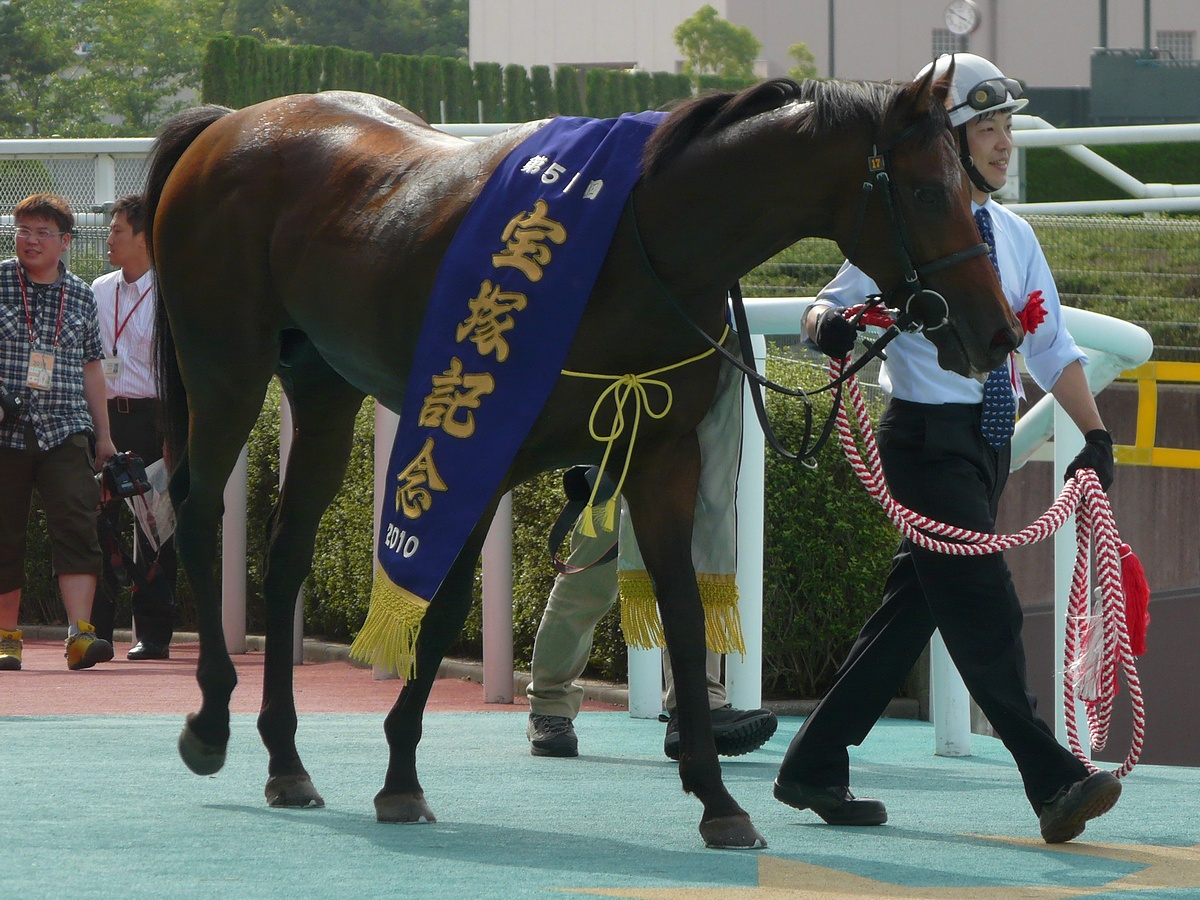 TNakayama-Festa